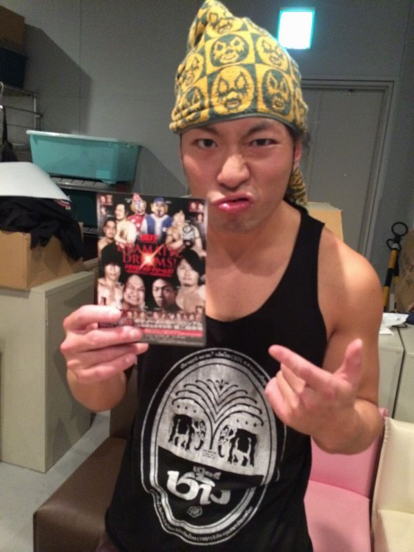 Japanese professional wrestler Masa Takanashi in April 2014.